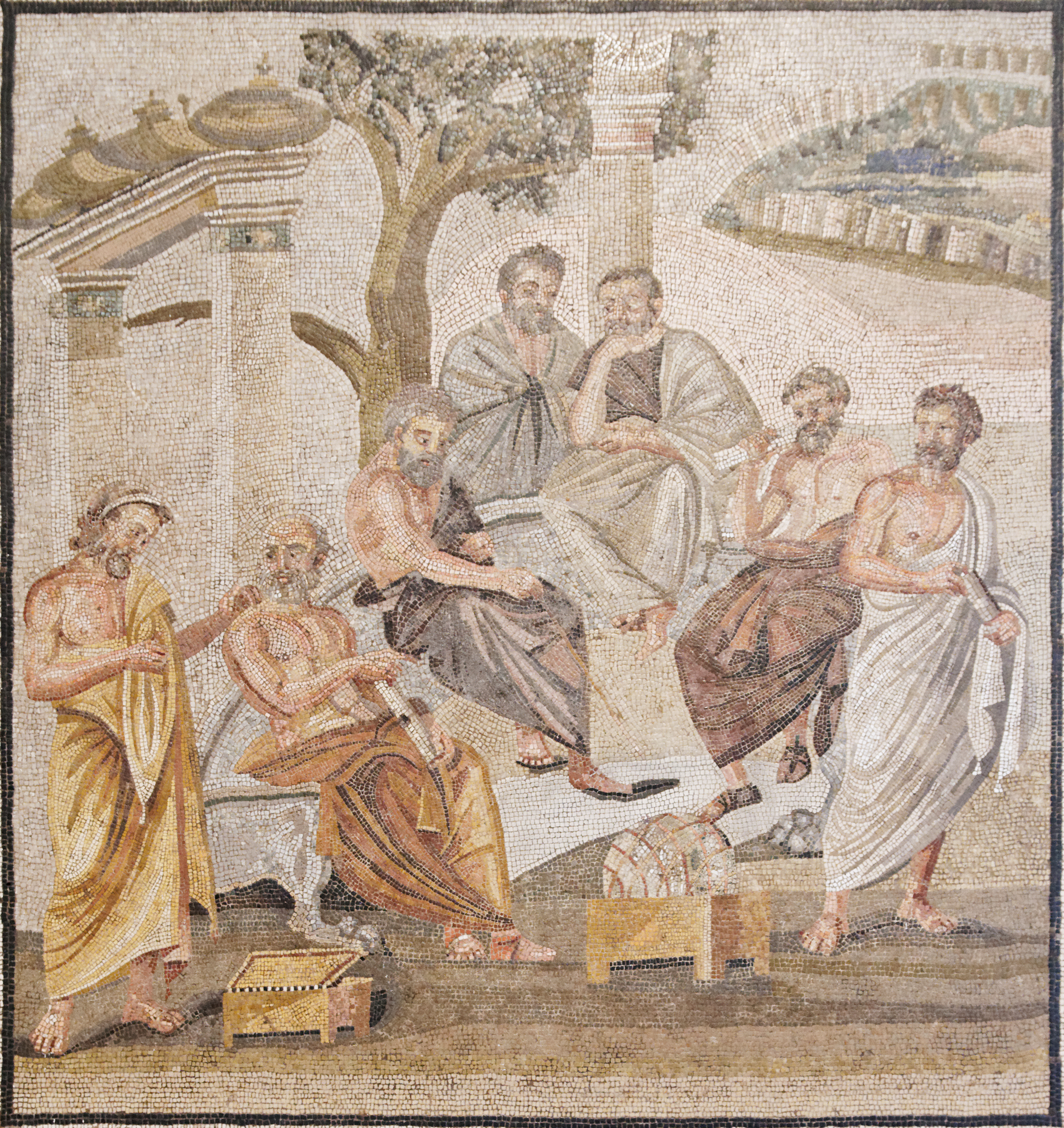 Plato's Academy mosaic. Roman mosaic of the 1st century BCE from Pompeii, now at the Museo Nazionale Archeologico, Naples.